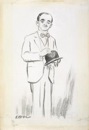 Self portrait of David Low. Alexander Turnbull Library.